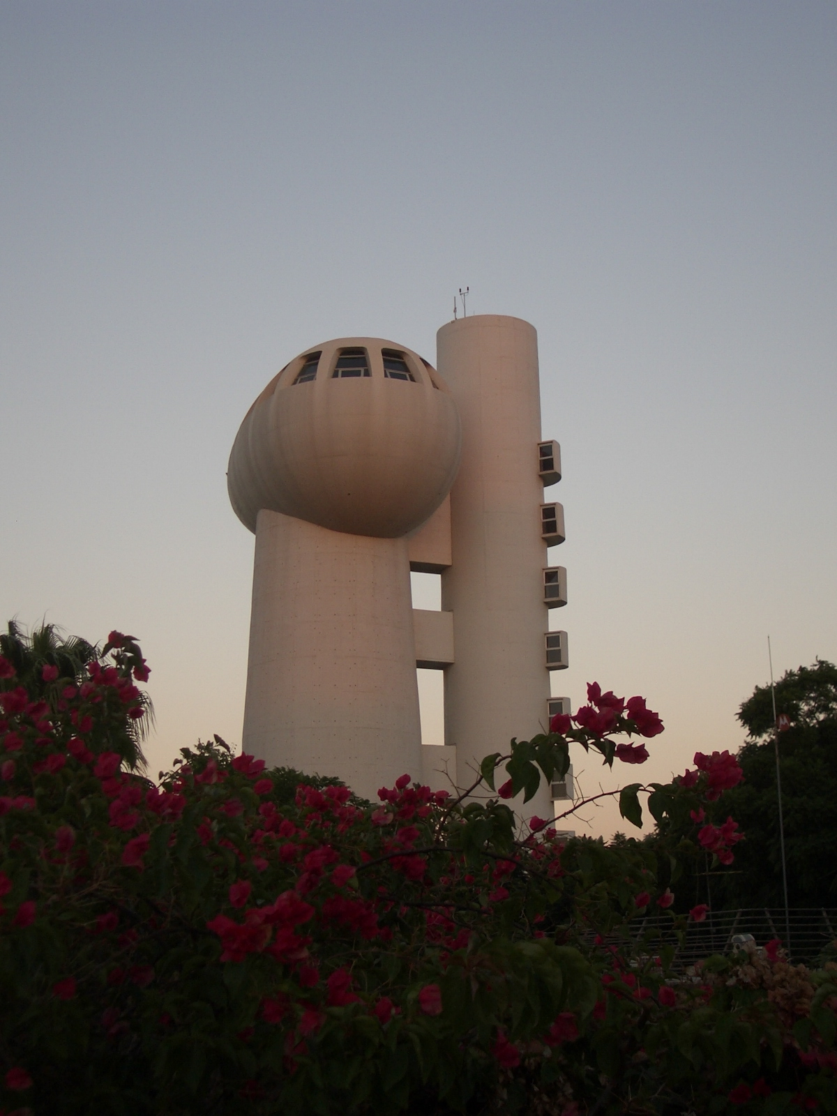 Koffler accelerator at Weizmann Institute - Rehovot - Israel